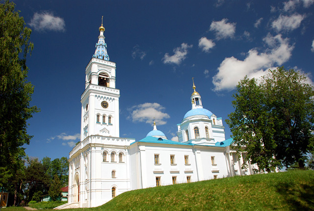 Spaso-Vlahrenskij Monastery